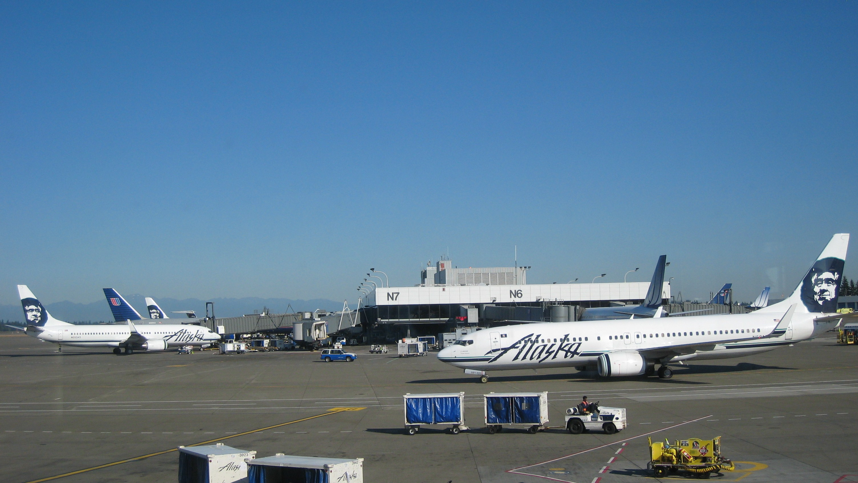 Seattle Tacoma (SeaTac) International Airport, Terminal N exterior. Alaska Airlines planes at the gates.